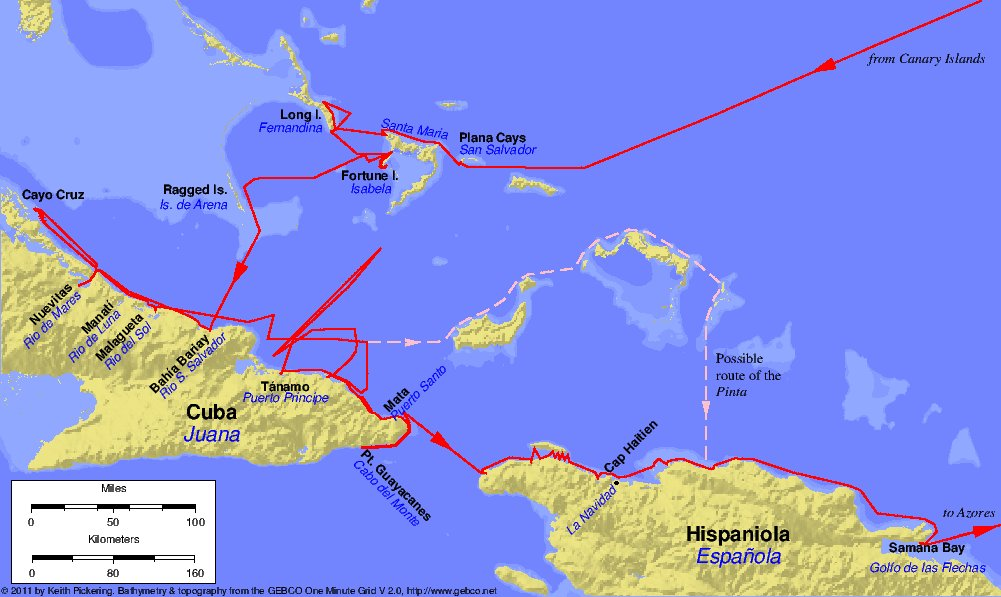 Map of the first voyage of Christopher Columbus, 1492-1493. Modern placenames are in black, Columbus's placenames are in blue.